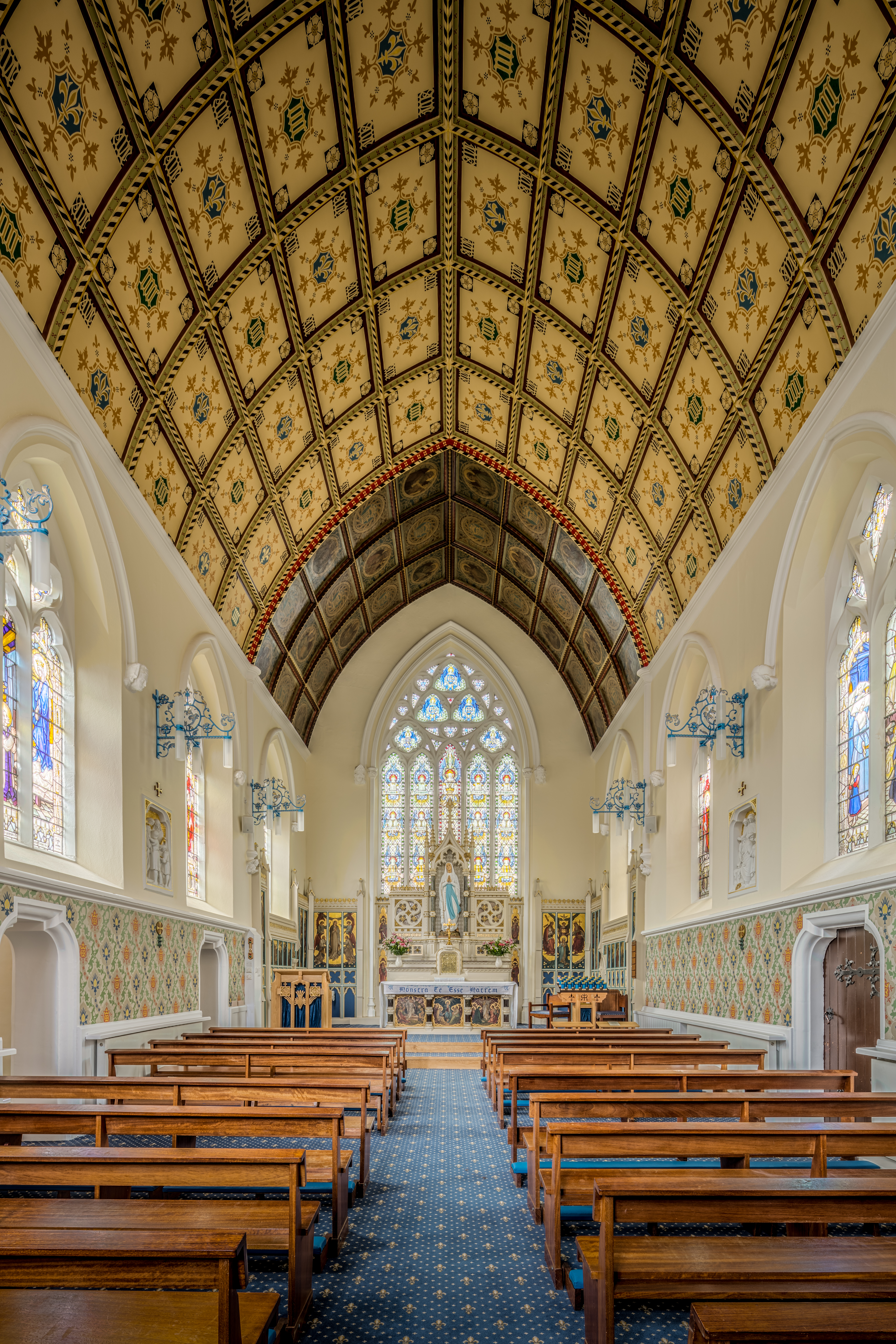 Here is an hdr photograph taken from the Lady Chapel inside St Marys Church. Located in Derby, Derbyshire, England, UK.